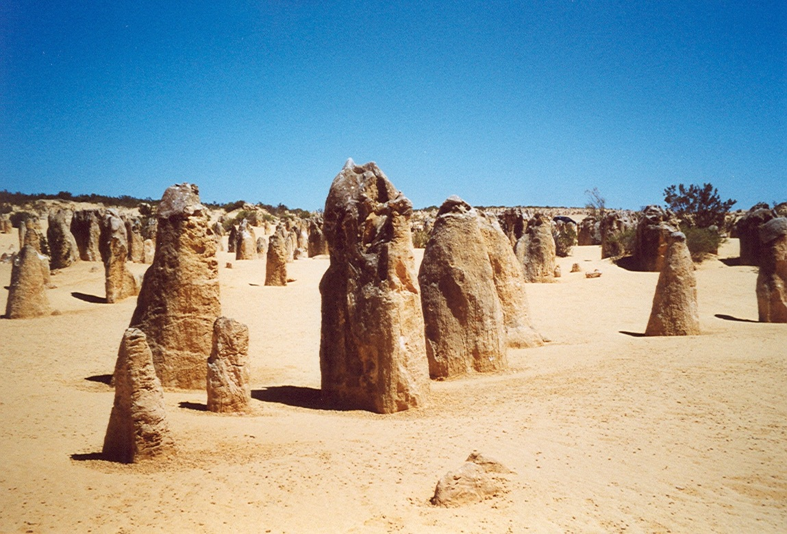 Pinnacles Photo taken by Achim Güth Date: jan 2004